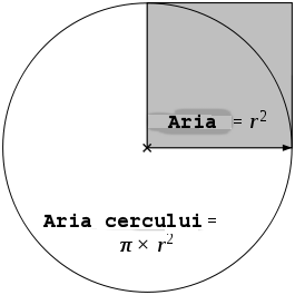 Calculation of the area of a circle, using the constant π (pi) in Romanian.